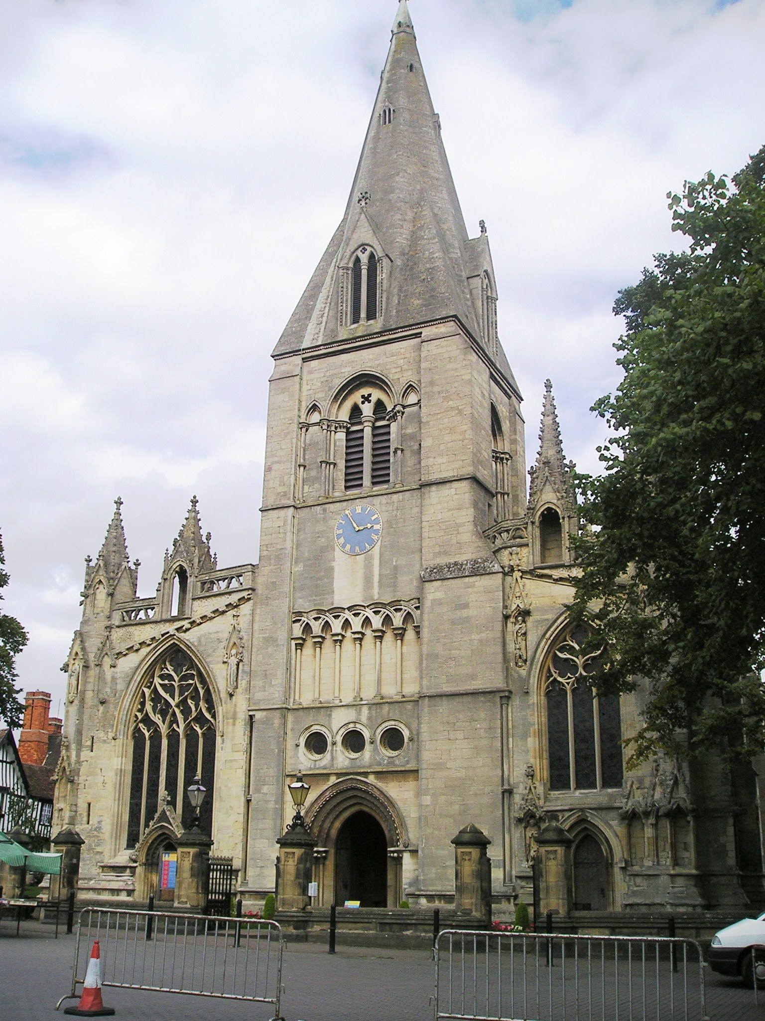 St Denys' parish church, Sleaford, Lincolnshire